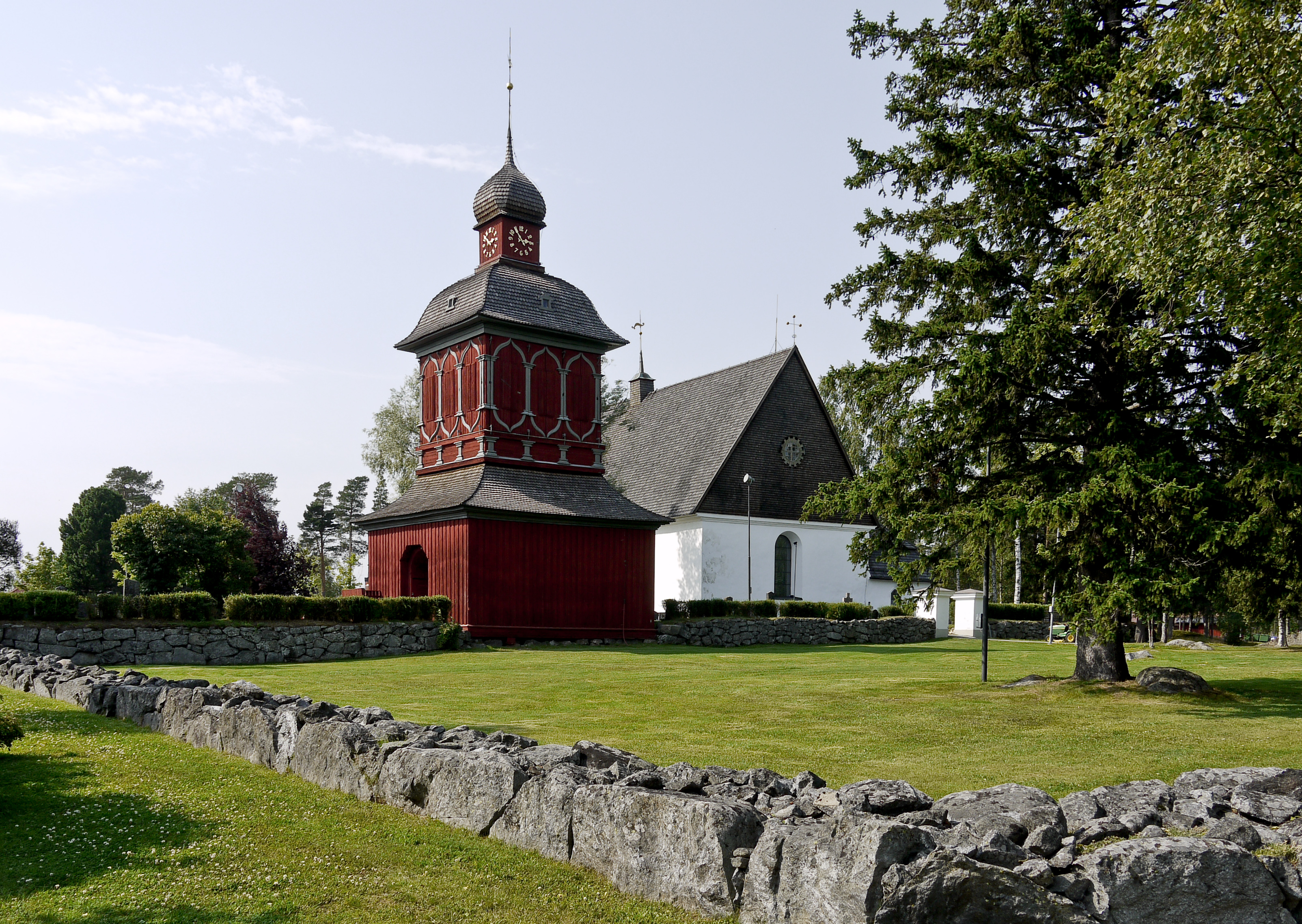 Church of Nordmaling, Diocese of Luleå. Nordmaling, Sweden.